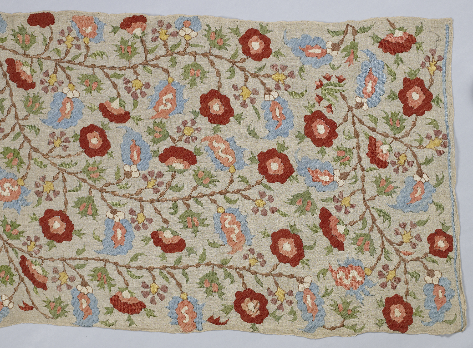 In the Turkish houses of old, covers like this one were draped around mirrors as decoration during the day and hung over them before sunset: there was a superstition that if one looked into a mirror at night, one might see the devil's reflection. The cover is embroidered with a double running stitch, making the decoration visible on both sides of the cloth. The floral ornament is inspired by earlier Ottoman glazed ceramics.